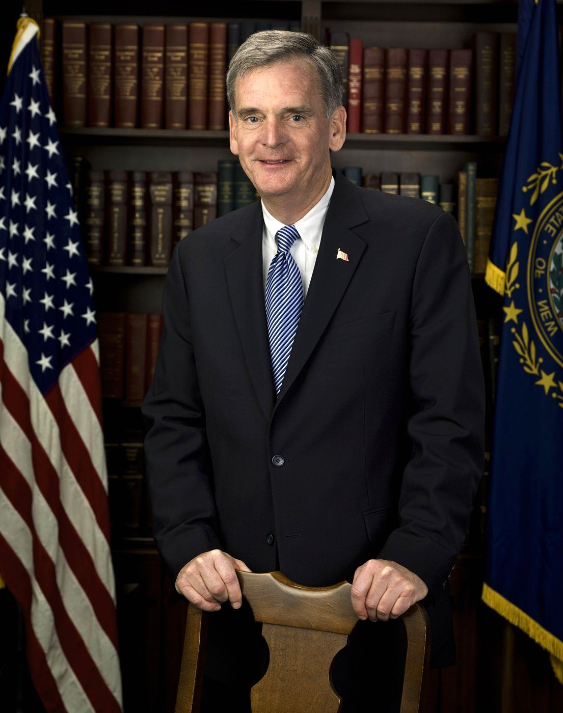 New Hampshire Senator Judd Gregg. Official Photo